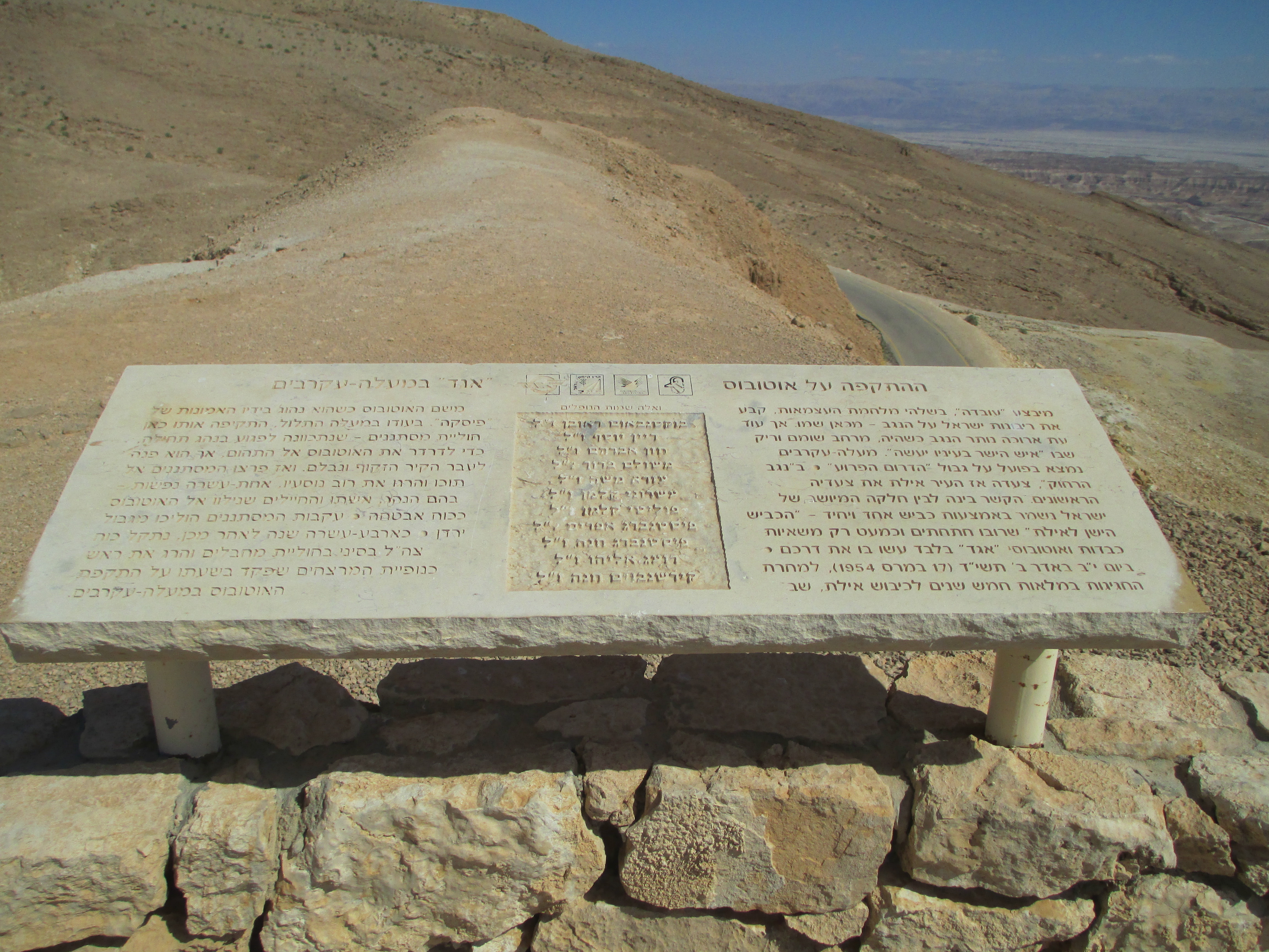 Ma'ale Akrabim massacre memorial